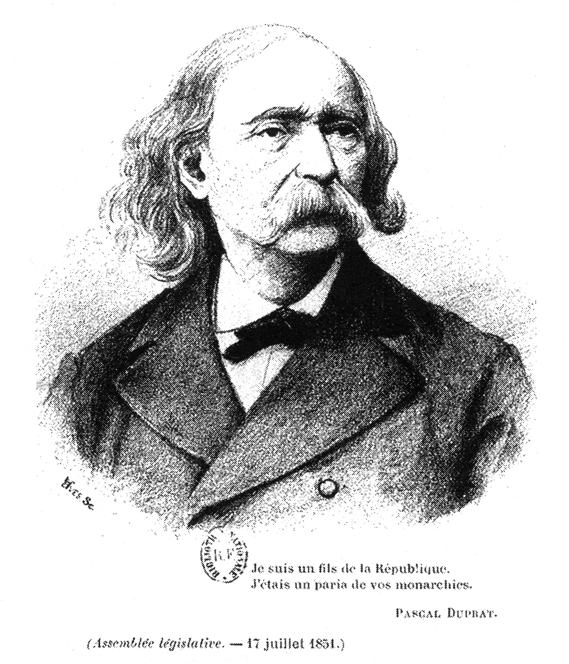 Portrait ca 1880 of Pascal Duprat (1815-1885). Frontispiece to Toussaint Nigoul, Pascal Duprat, sa vie, son oeuvre, Paris: E. Dentu, 1887